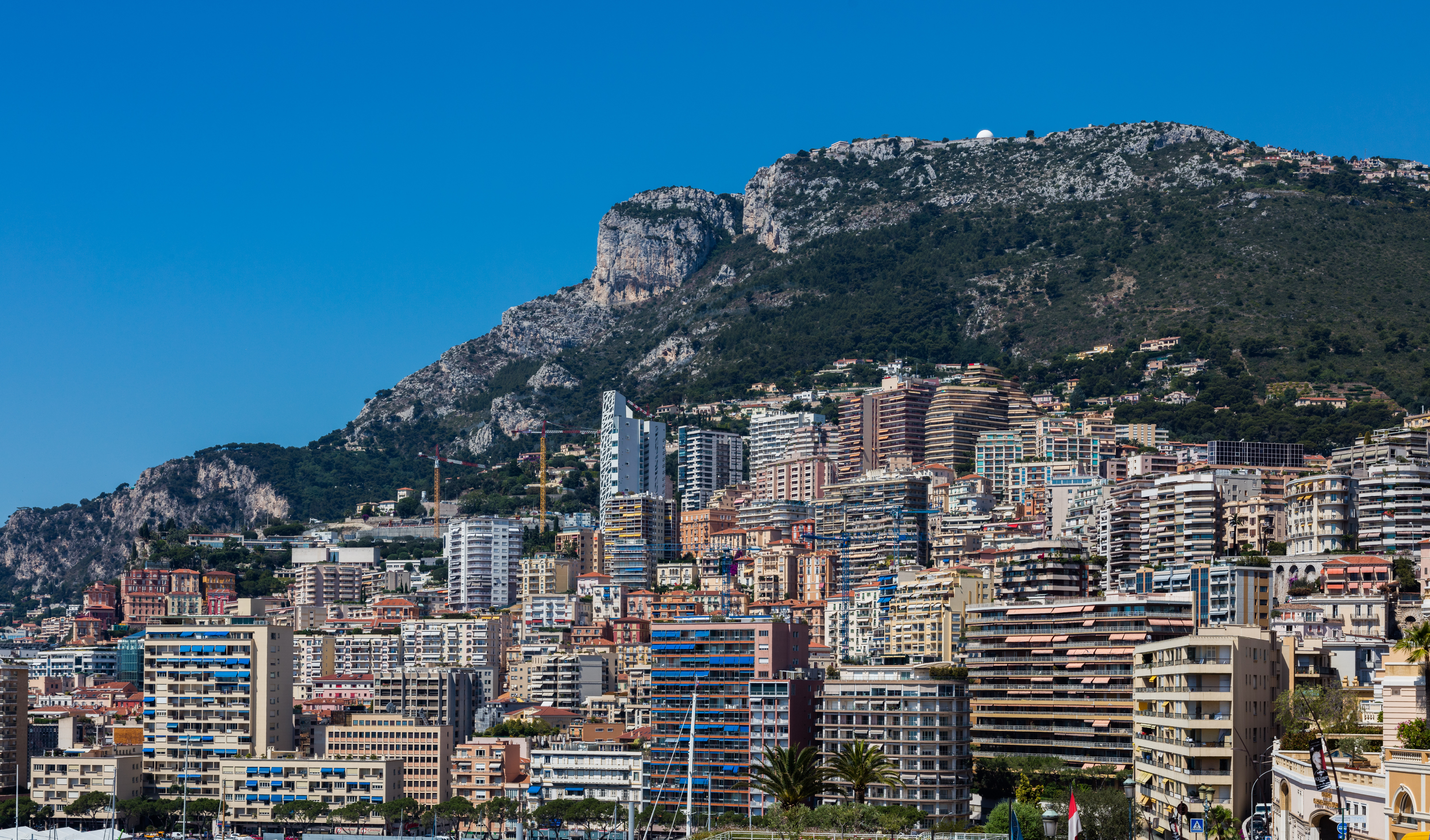 View of Monaco